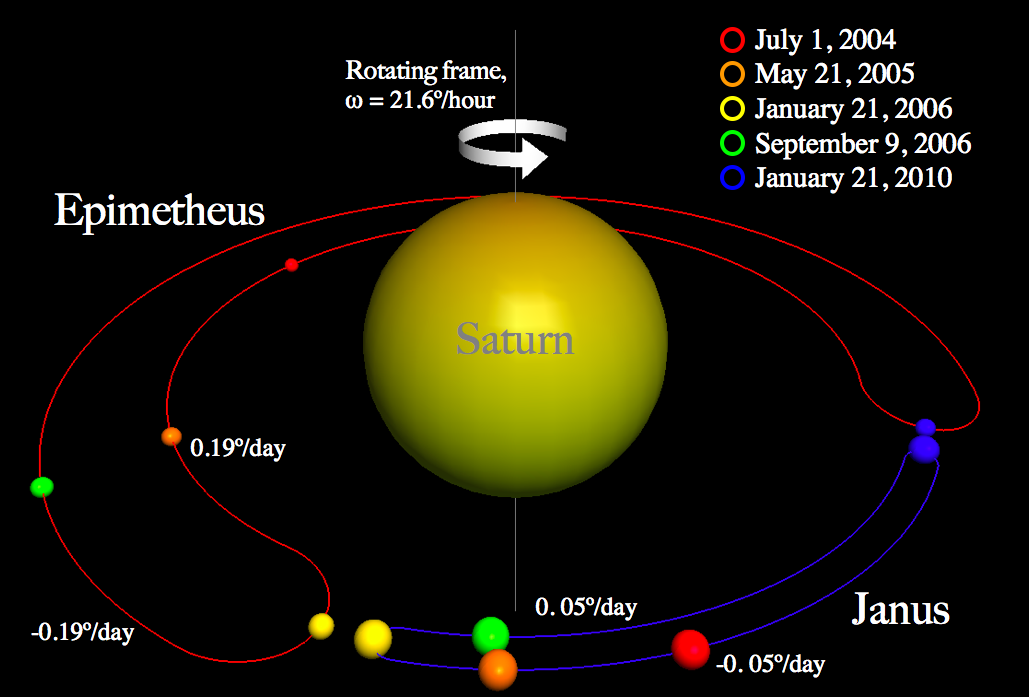 This is an illustration of the horseshoe orbits of Janus and Epimetheus around Saturn. The dates in this image were taken from "The Rotation of Janus and Epimetheus" by Tiscareno et al. published in Icarus, July 6 2009. The size of Saturn is proportional to the average orbital radius, but the distance from the average radius to the inner/outer radii has been exaggerated 500-fold. The sizes of the moons are exaggerated 50-fold.